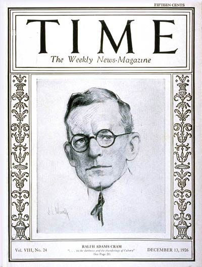 Cover of Time Magazine (December 13, 1926) w/ Ralph Adams Cram